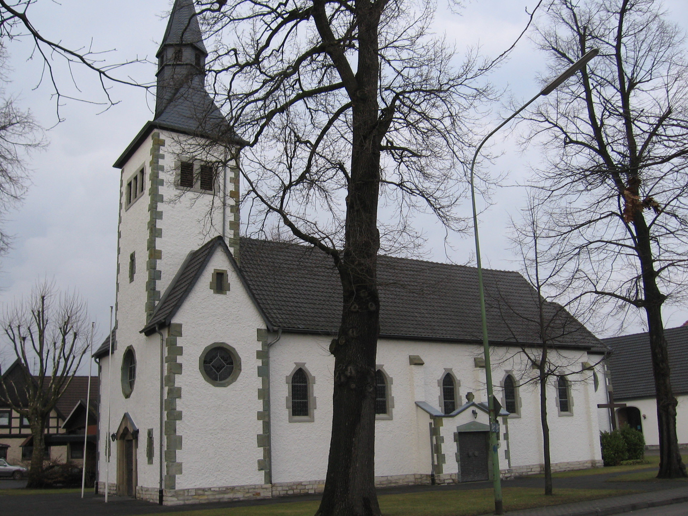 Delbrück: Catholic church Saint Denis in Bentfeld